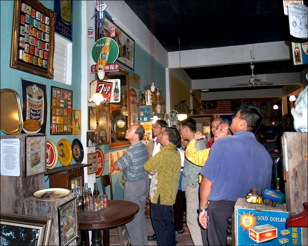 The TIME TUNNEL museum is located within the Kok Lim Strawberry Farm, UT/MR/F-255, Jalan Sungei Burung, 39100, Brinchang, the Cameron Highlands, Pahang, West Malaysia.